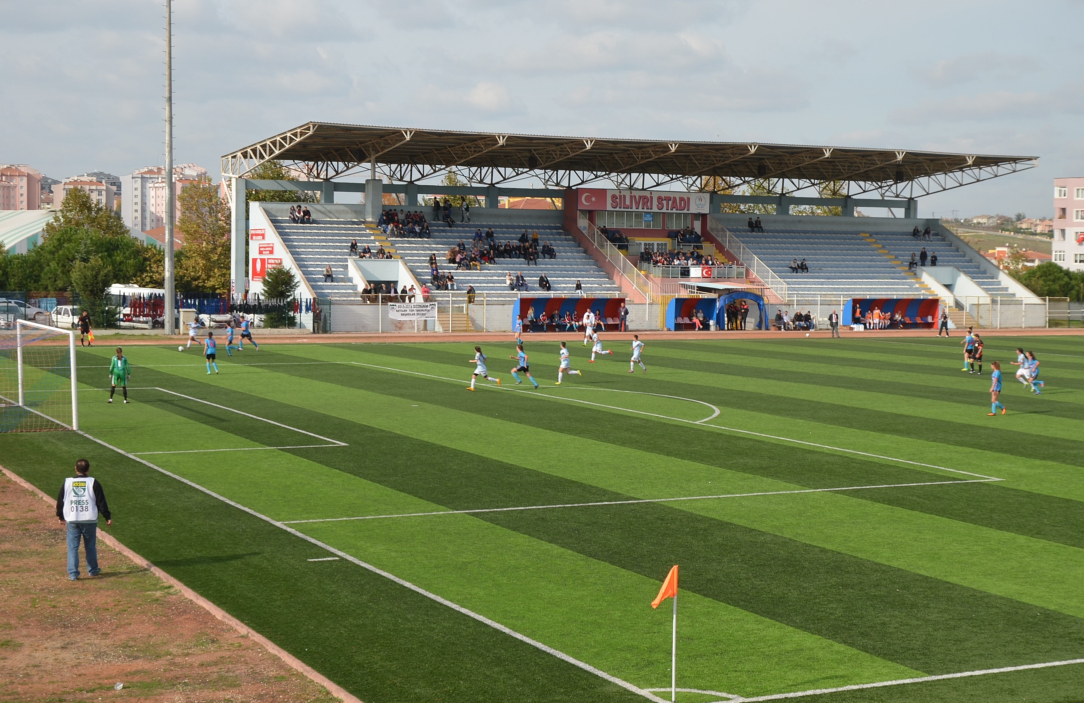 Silivri Stadium in Silivri, Istanbul, Turkey